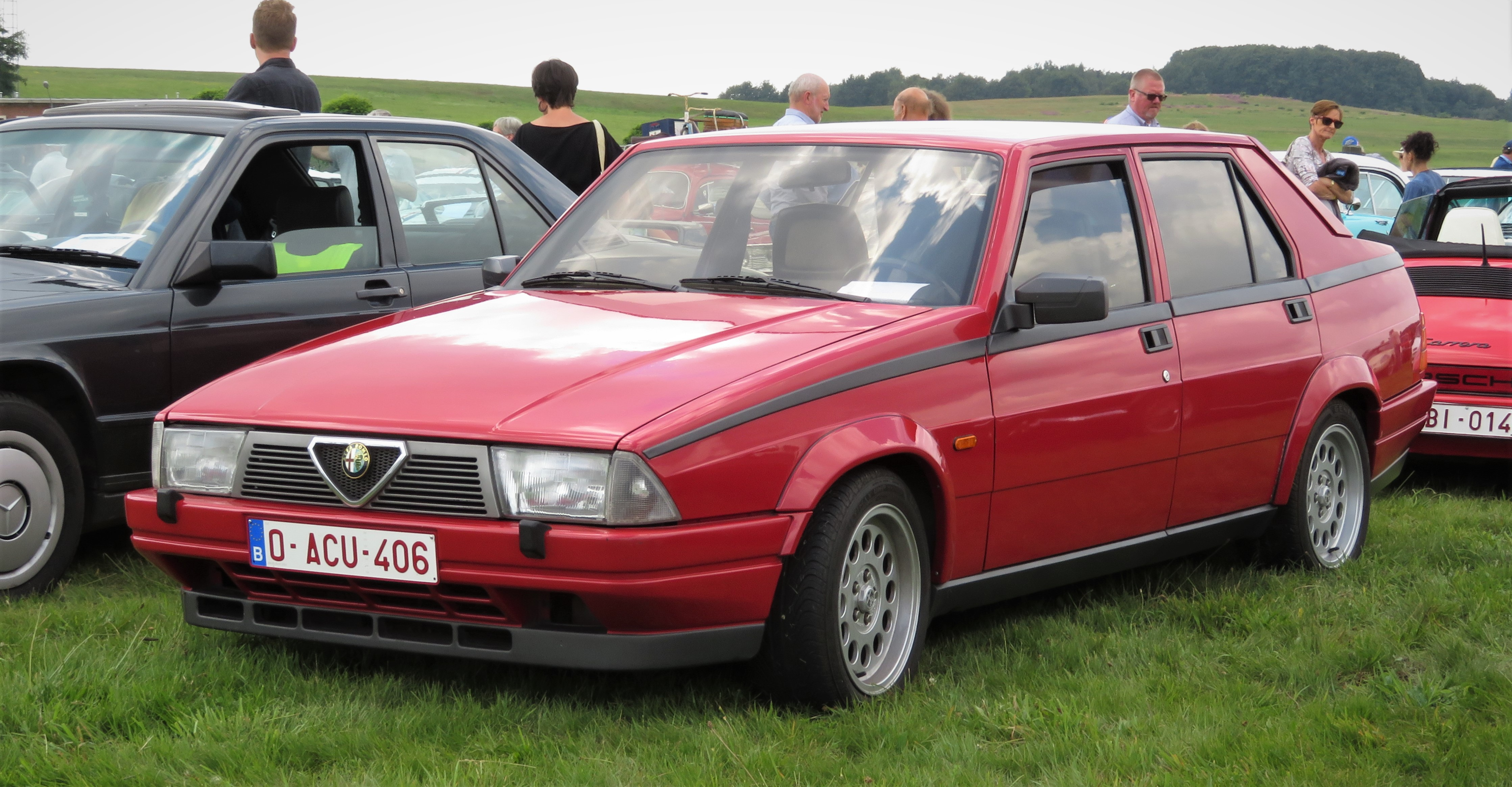 Alfa Romeo 75